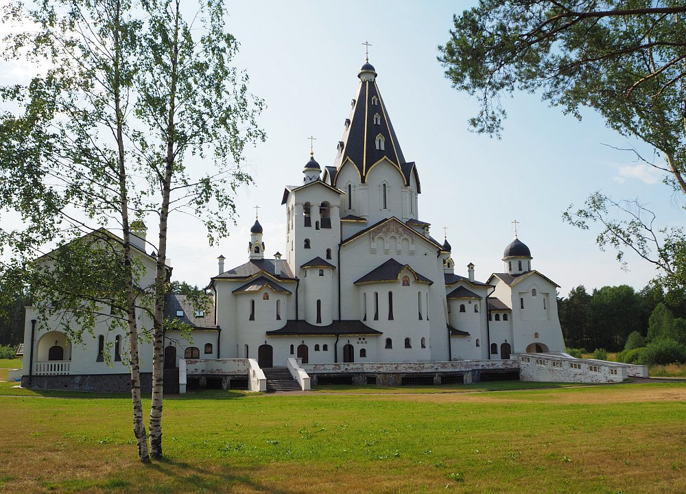 Valaam. St. Vladimir Skete.